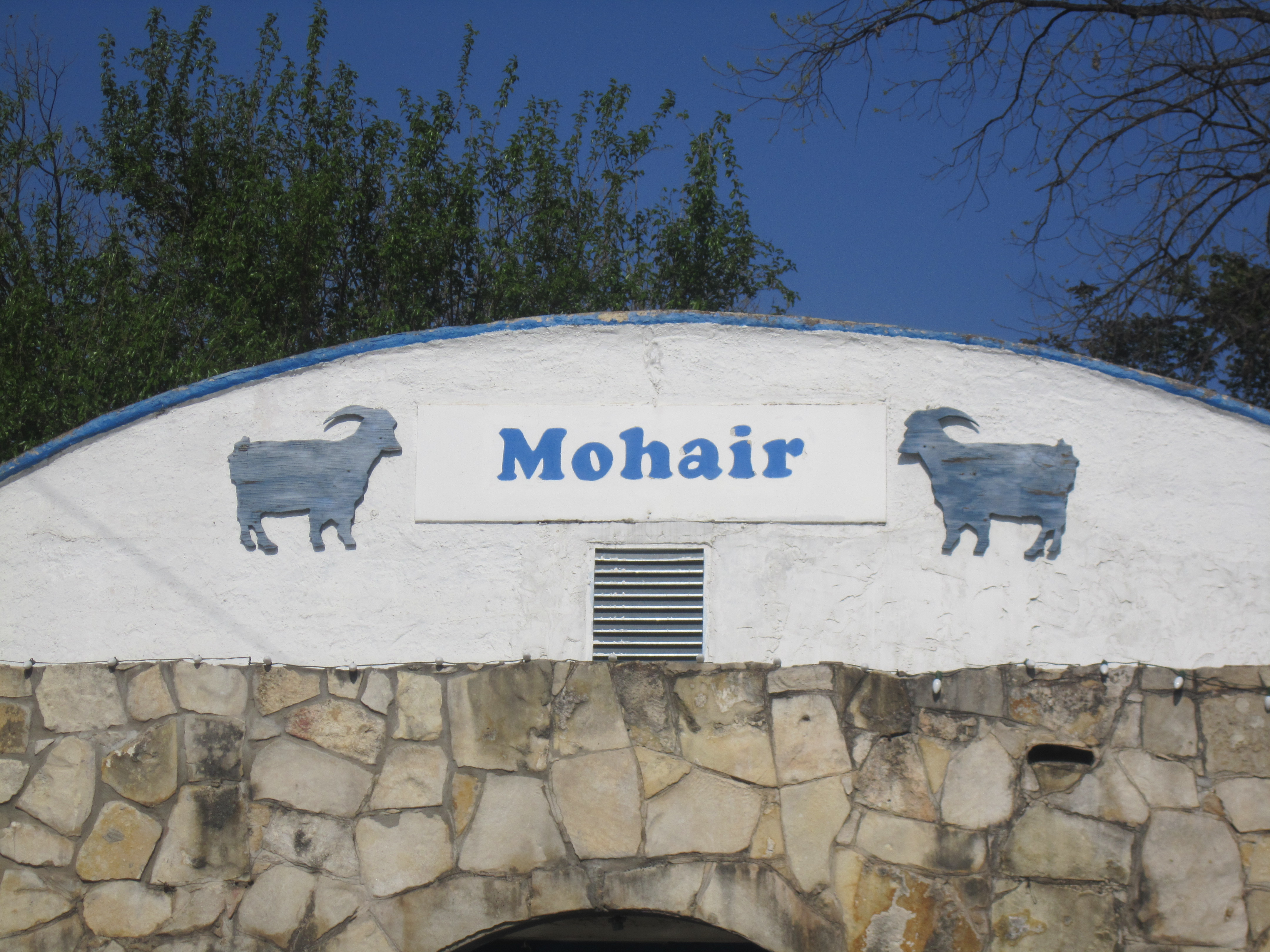 I took photo with Canon camera in Camp Wood, TX.